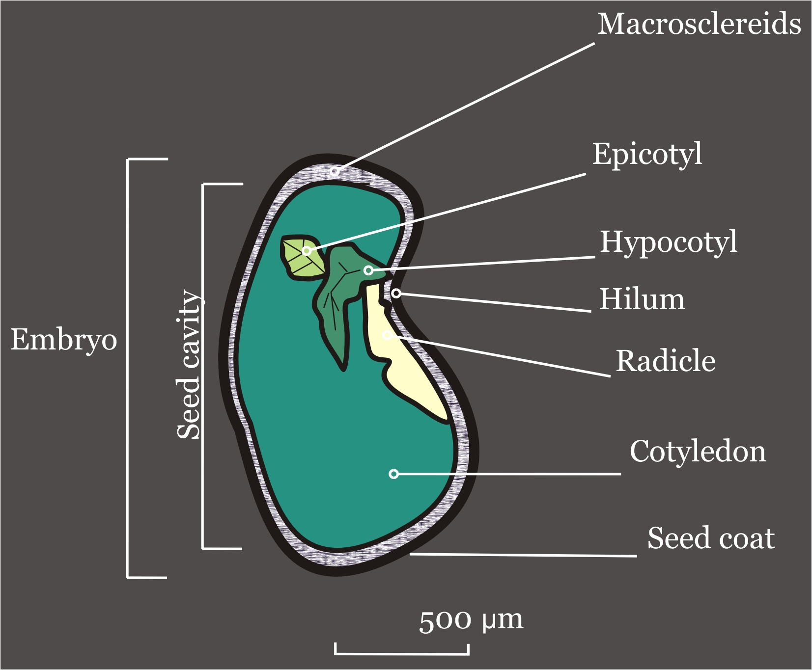 Oxytropis (Fabaceae) seed and embryo